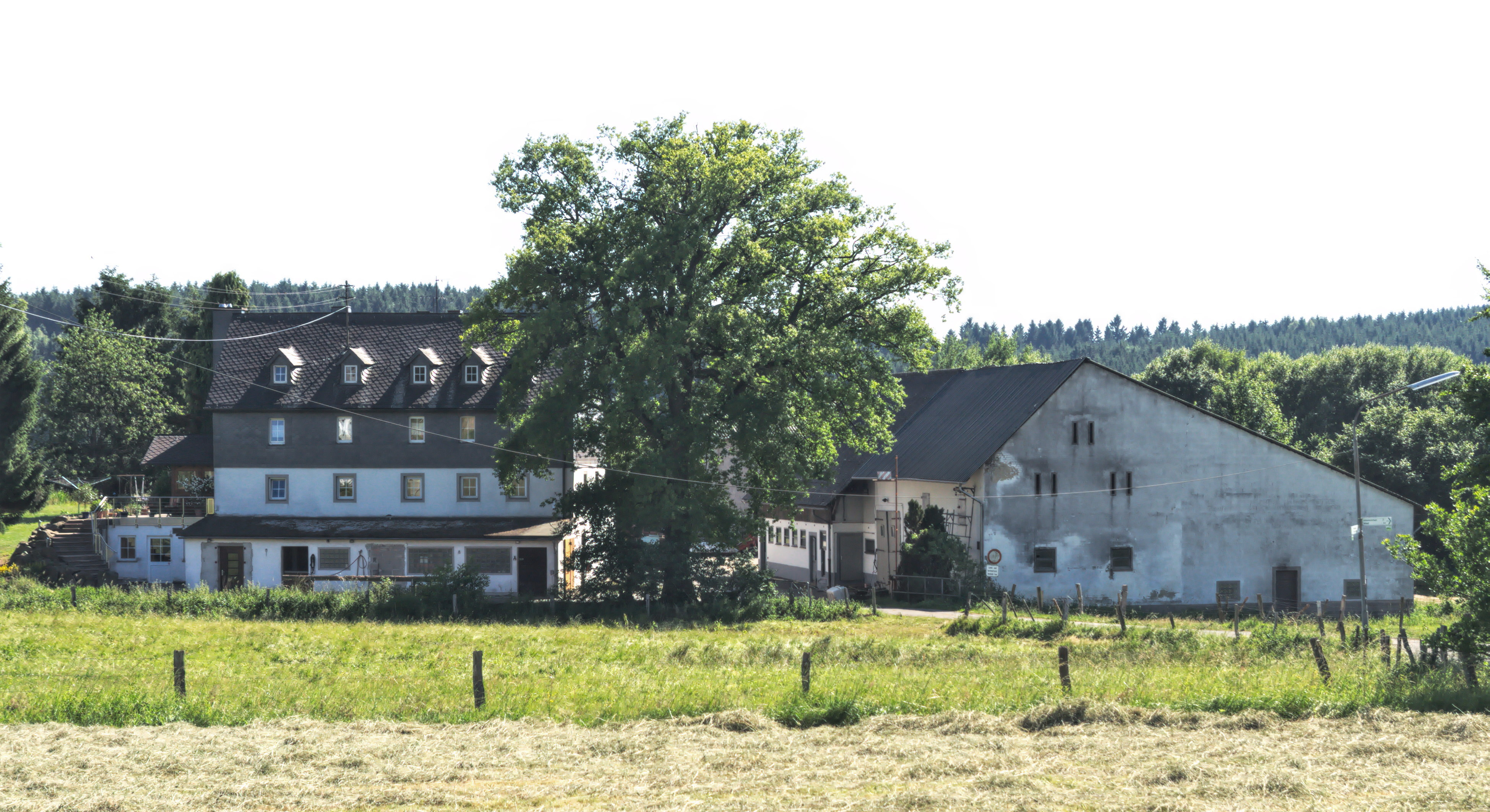 Neumühle mill near Schmidthahn, Steinebach an der Wied, Westerwald, Germany. This former mill building is now used as a farmyard